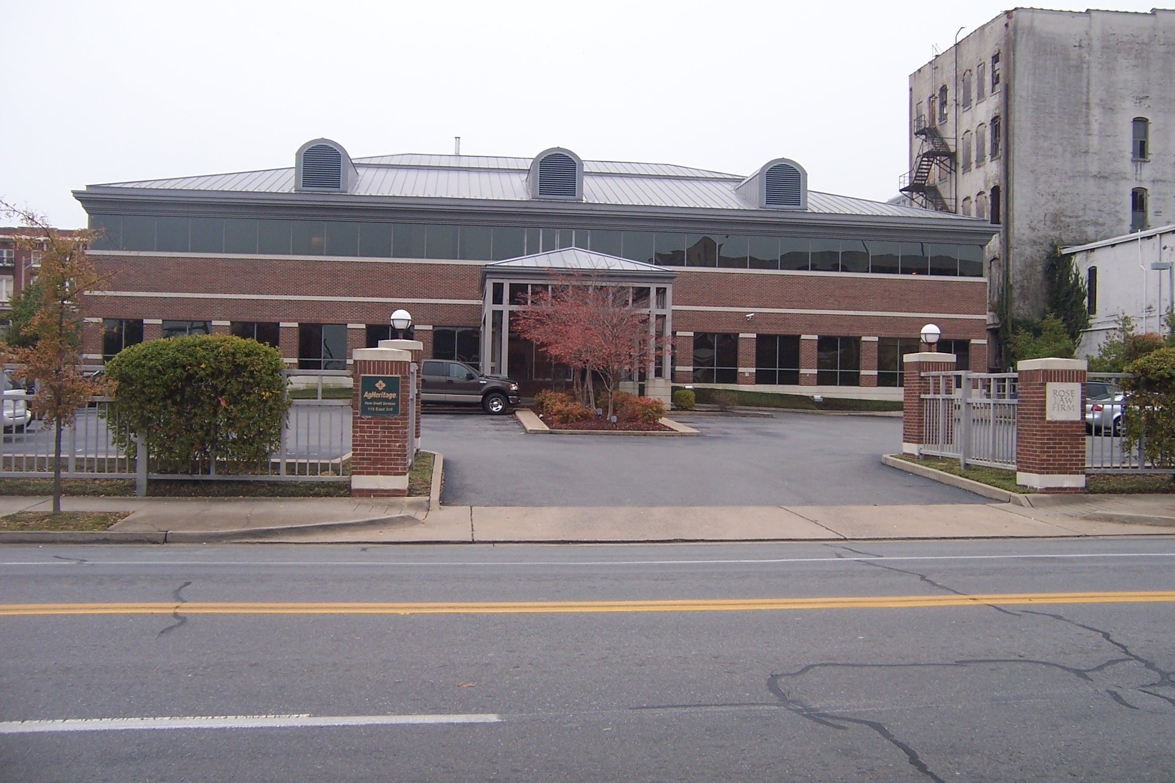 Front, current entrance of Rose Law Firm in Little Rock, Arkansas.